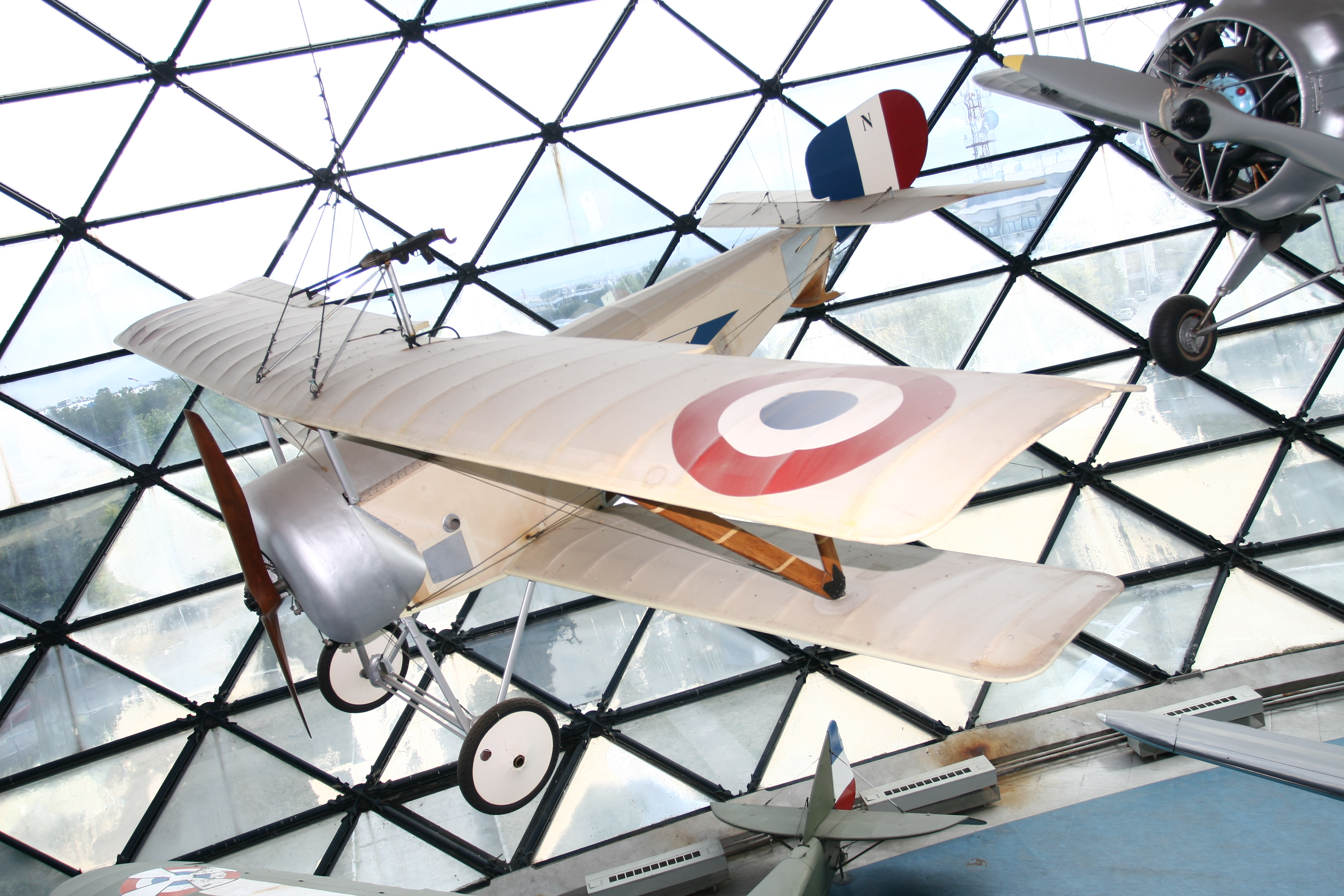 Neuport Bebe